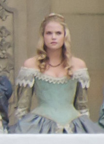 Gabrielle Wilde filming a scene in the 2011 version of The Three Musketeers as Constance